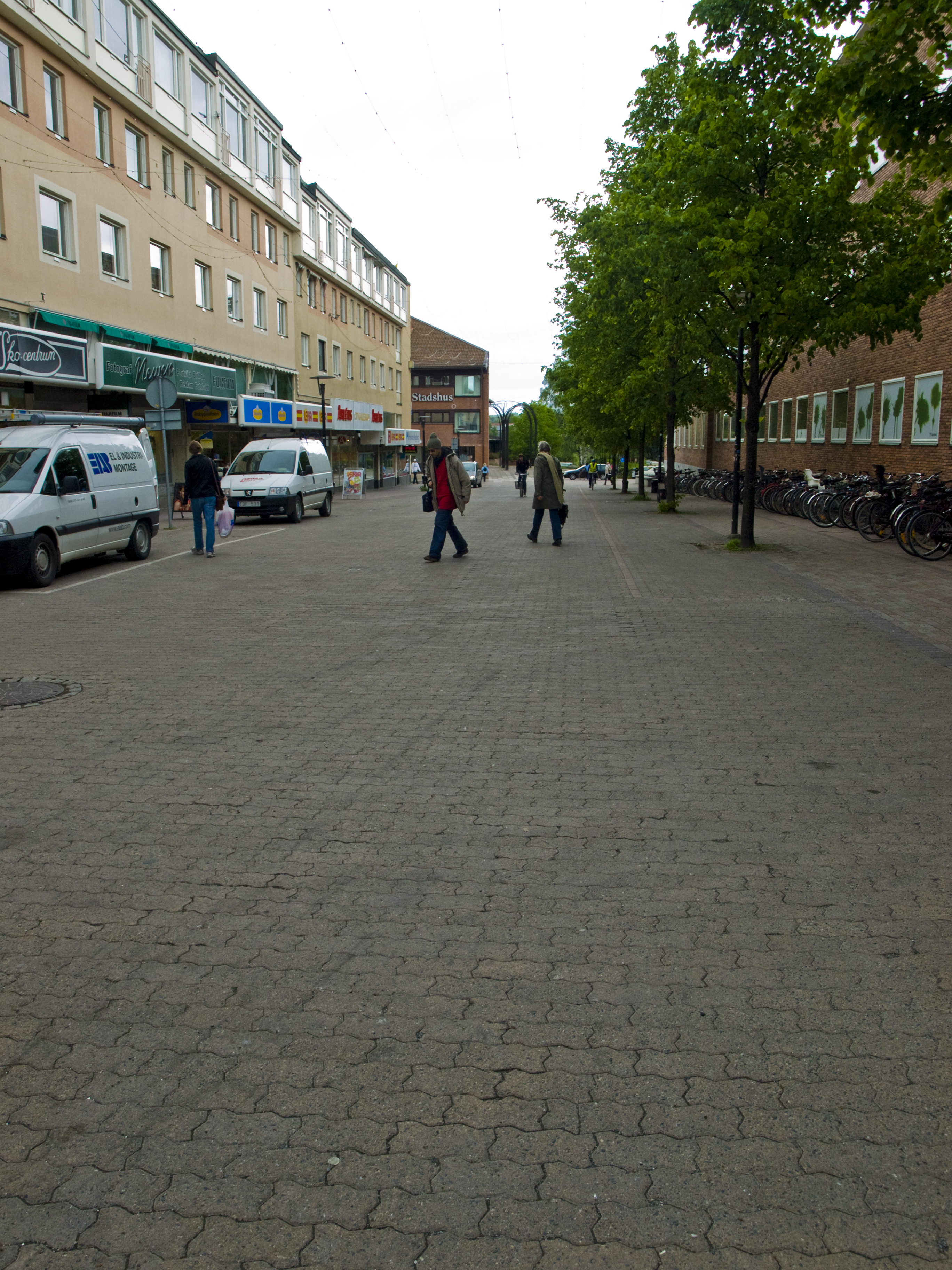 A view over trädgårdsgatan in Skellefteå, looking towards Skellefteälven